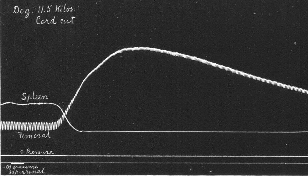 Recording of blood pressure of anaesthetized dog and response to suprarenal gland extract